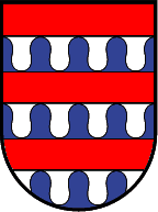 Coat of arms of the Lordship of Blumenegg